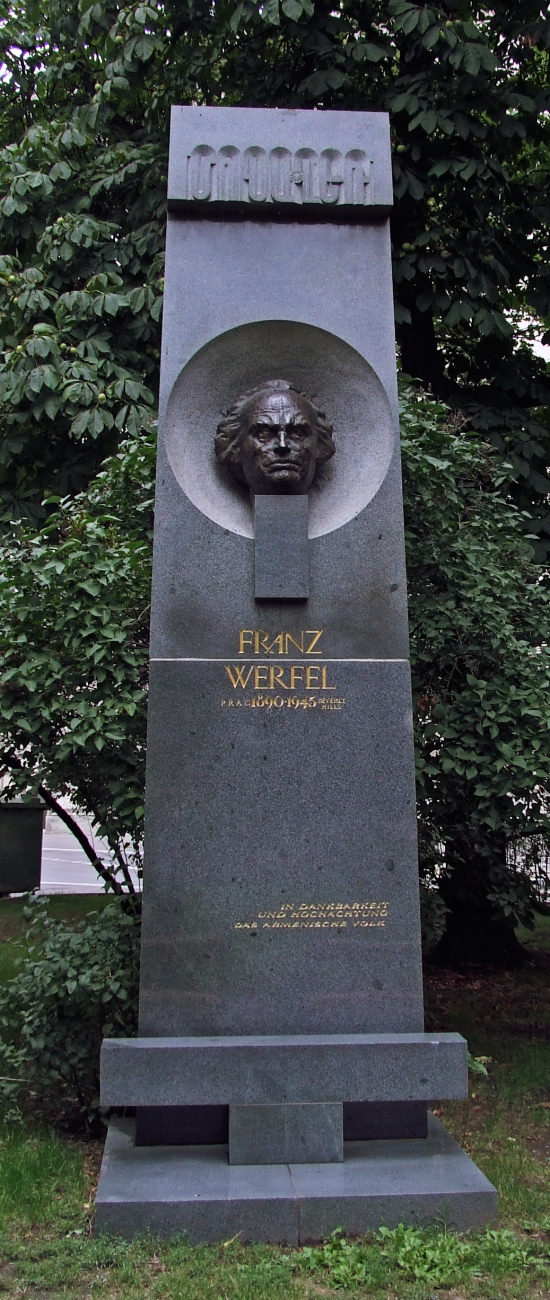 Werfel statue on Schillerplatz in Vienna